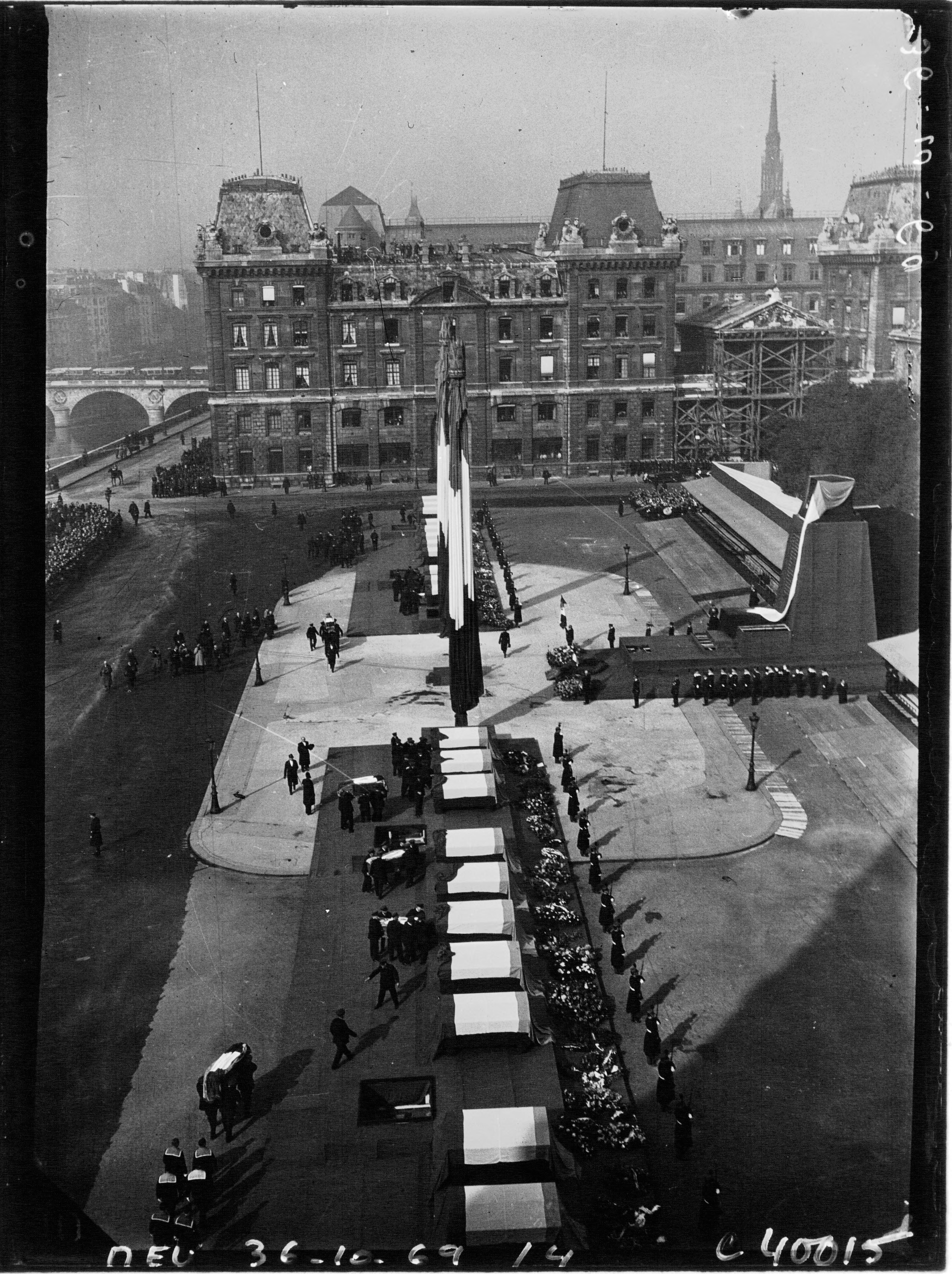 The funeral of French polar explorer Jean-Baptiste Charcot (and his men) in front of the Notre Dame cathedral in Paris, 1936.